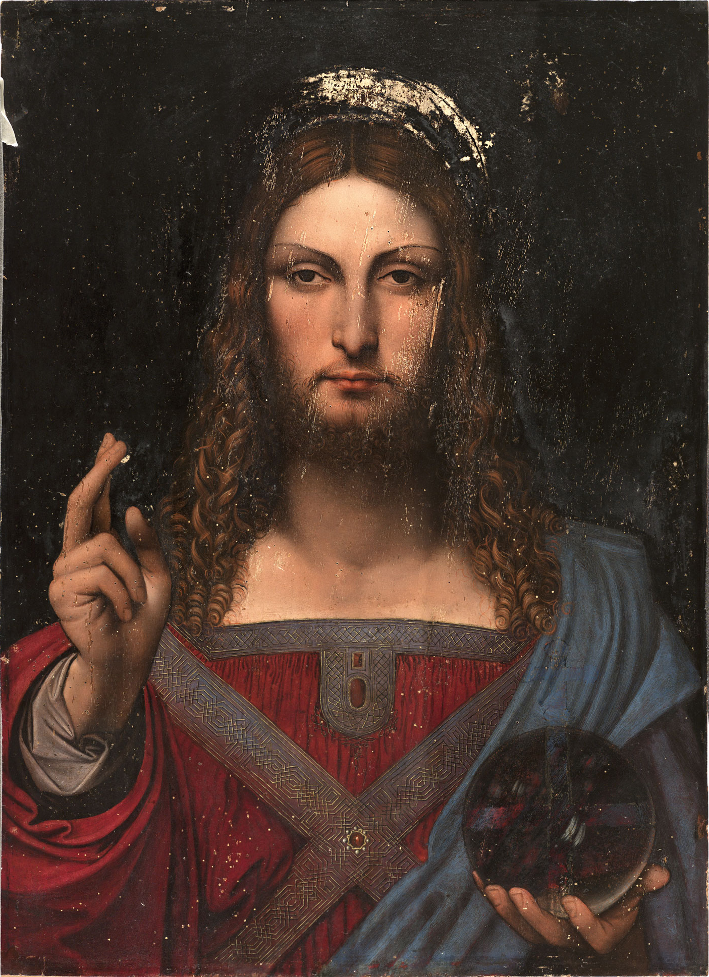 Salvator Mundi (Christ as Salvator Mundi), formerly in the Marquis de Ganay collection.